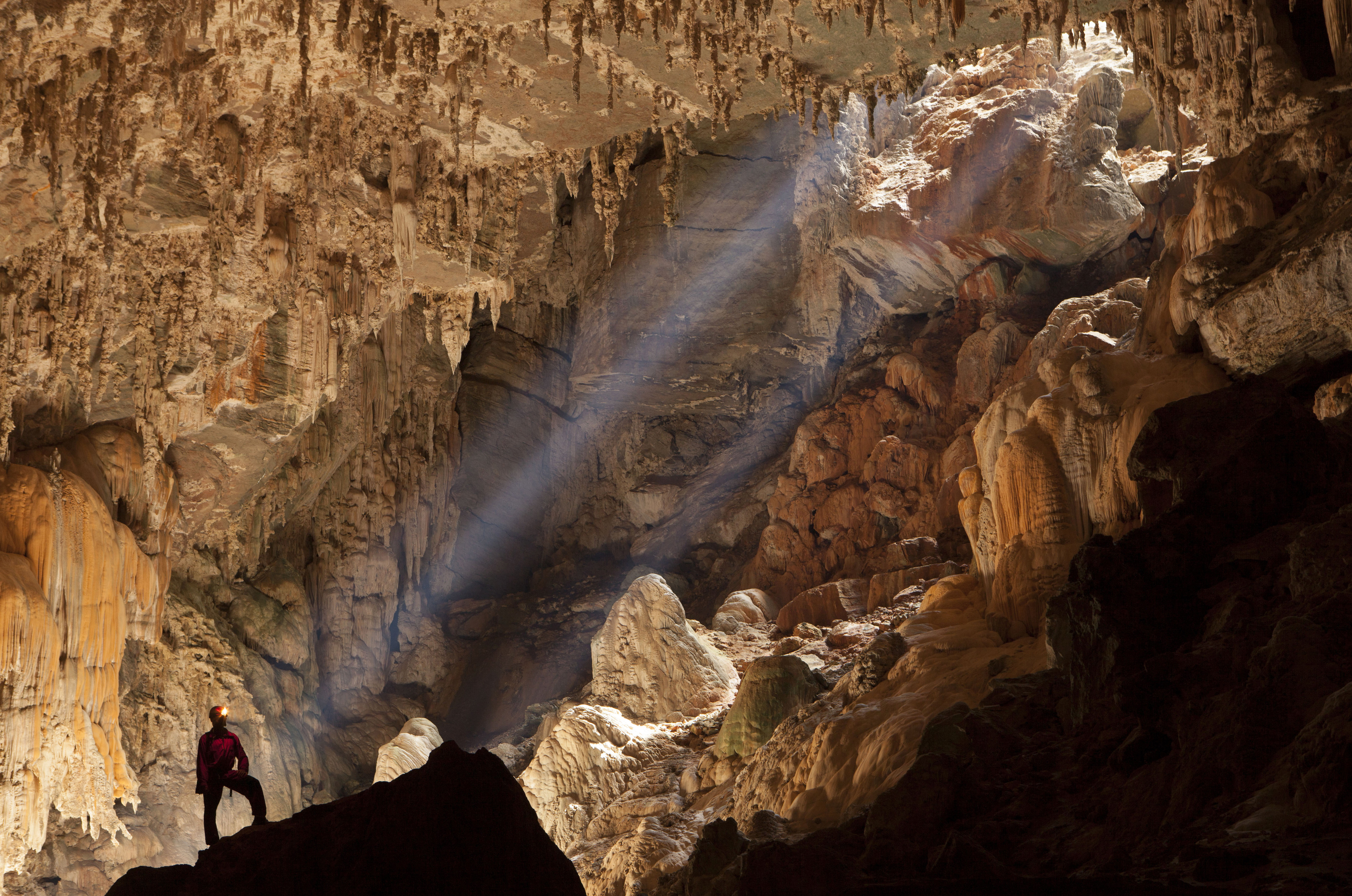 Speleologist observing sun rays inside the Terra Ronca cave.